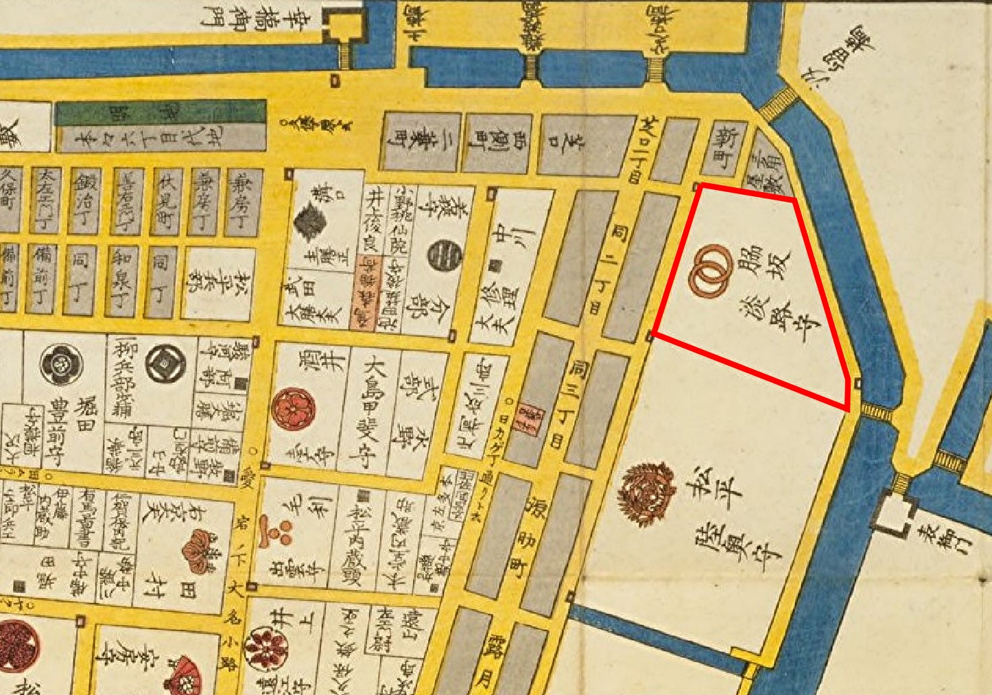 Residence of Wakizaka clan at Edo